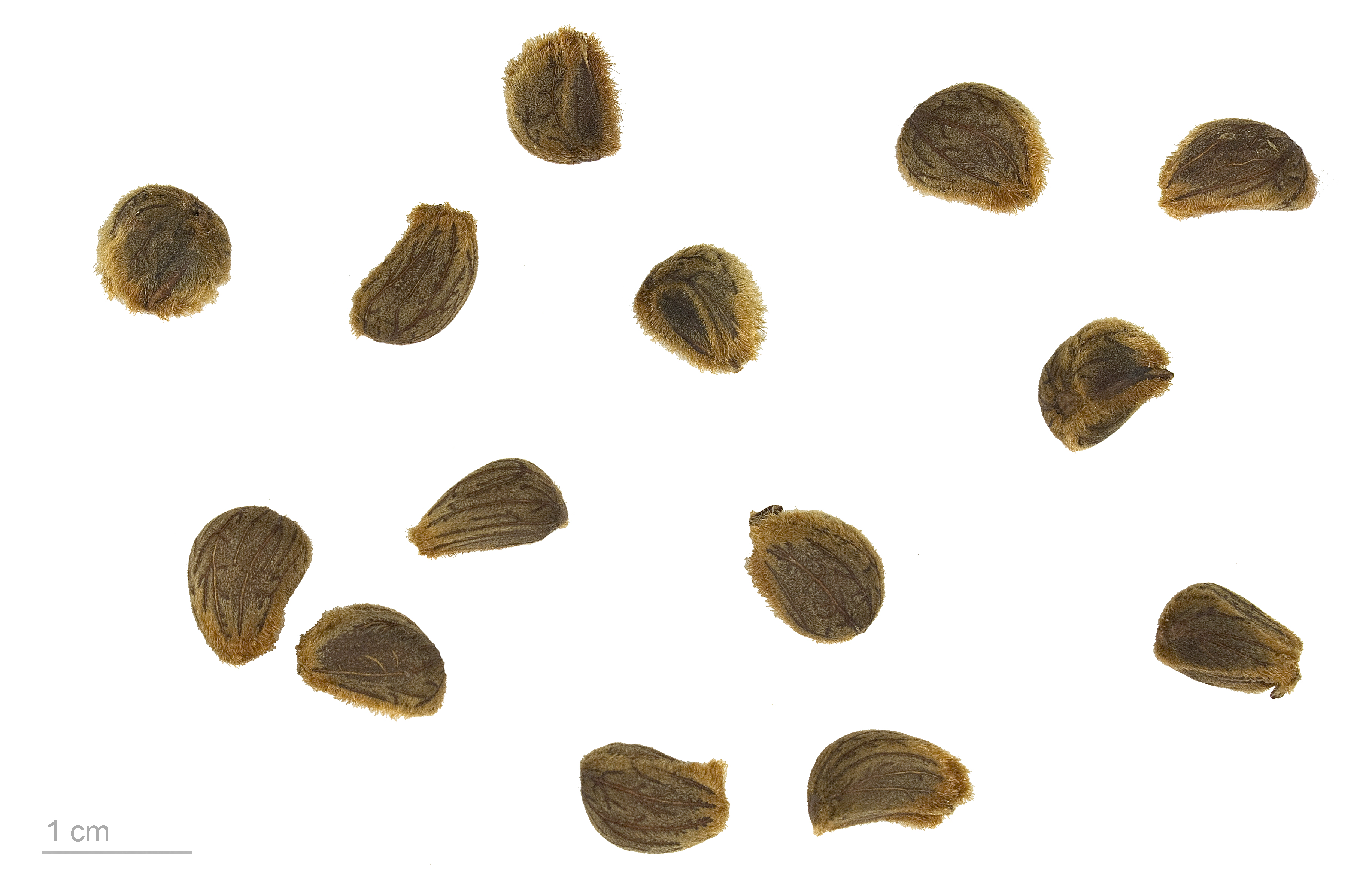 Thespesia populnea , fruits and seeds